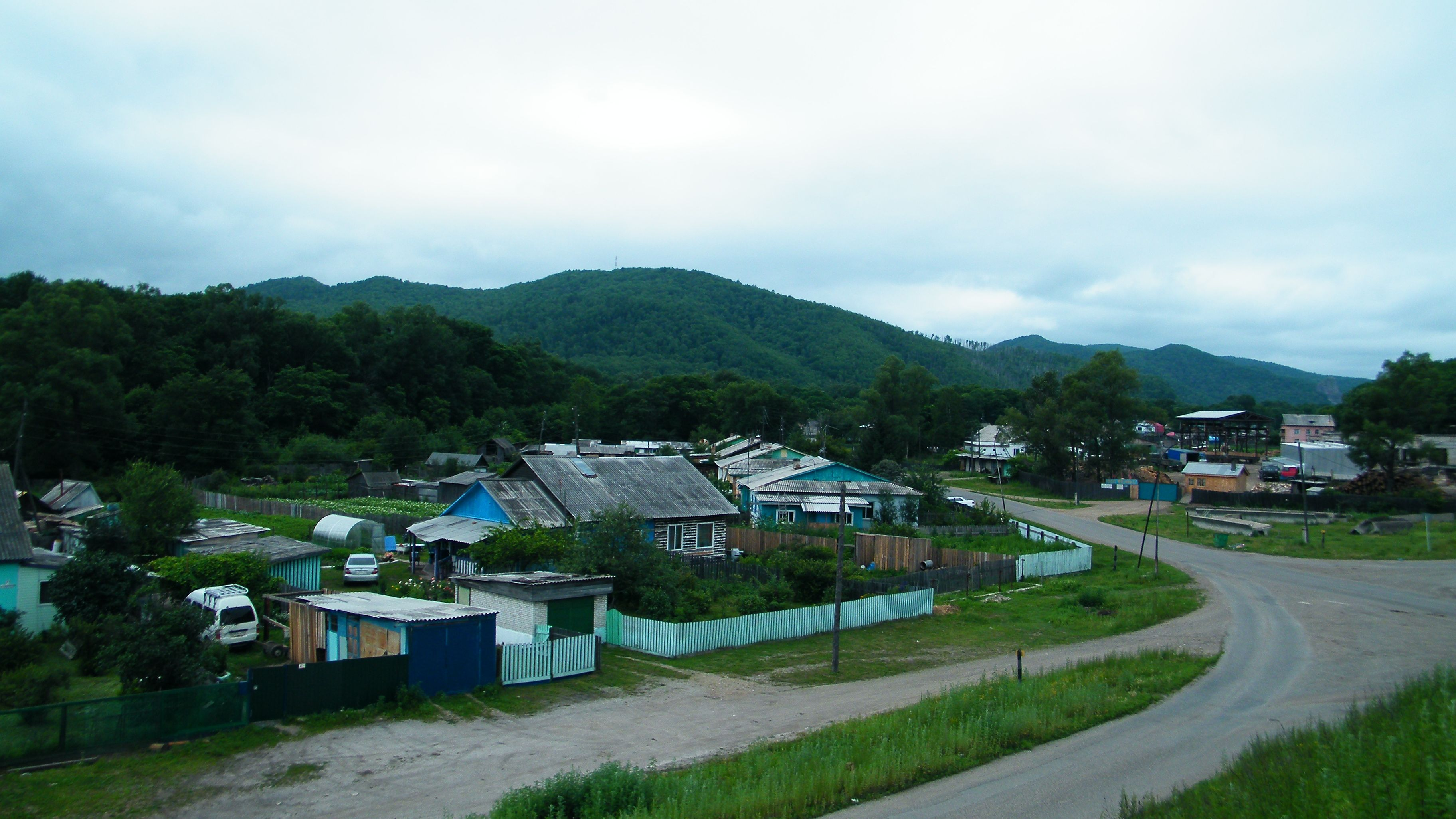 Пос Горнореченский Кавалеровский район ф2